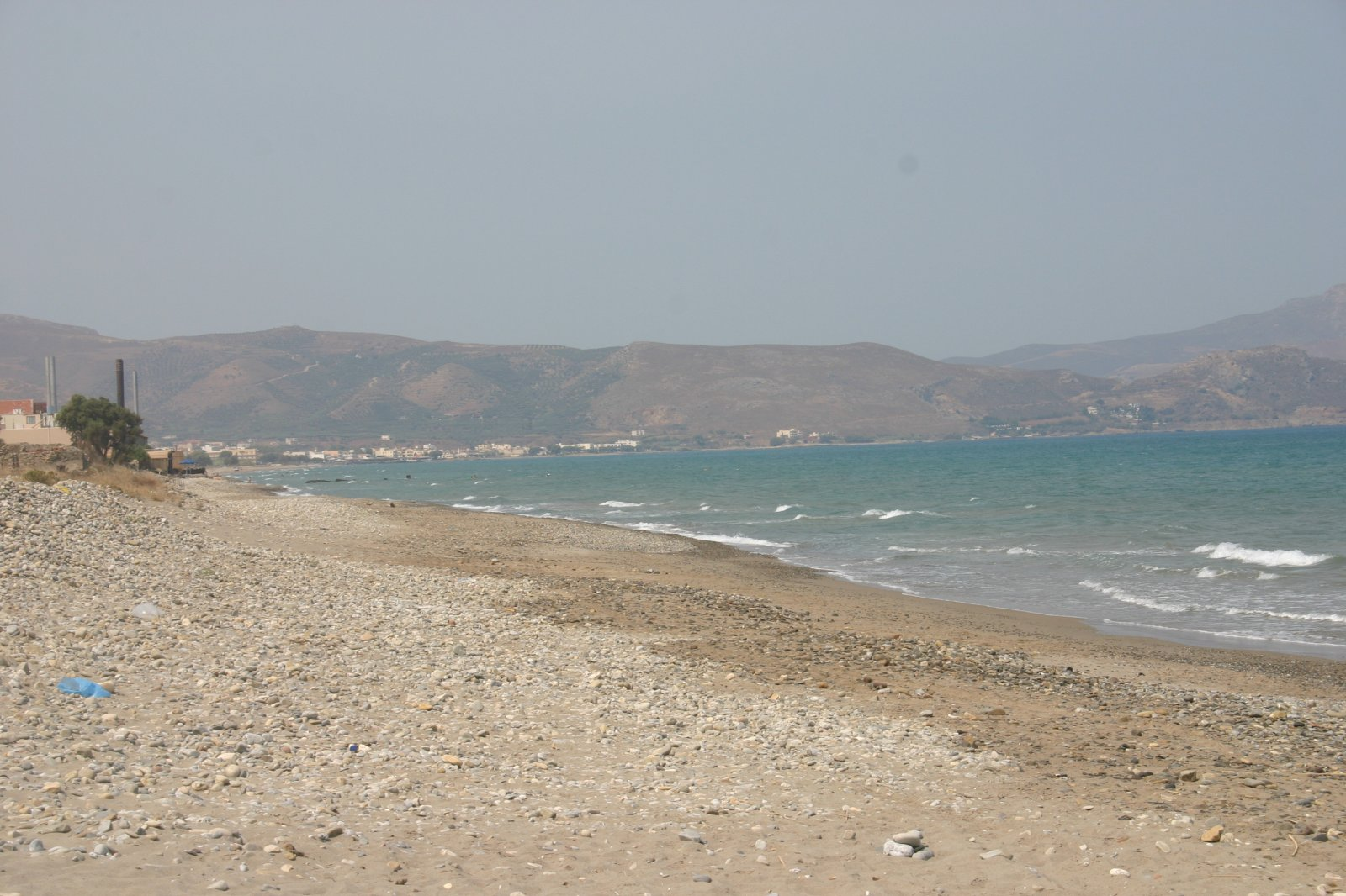 Beach of Maleme Beach of Maleme